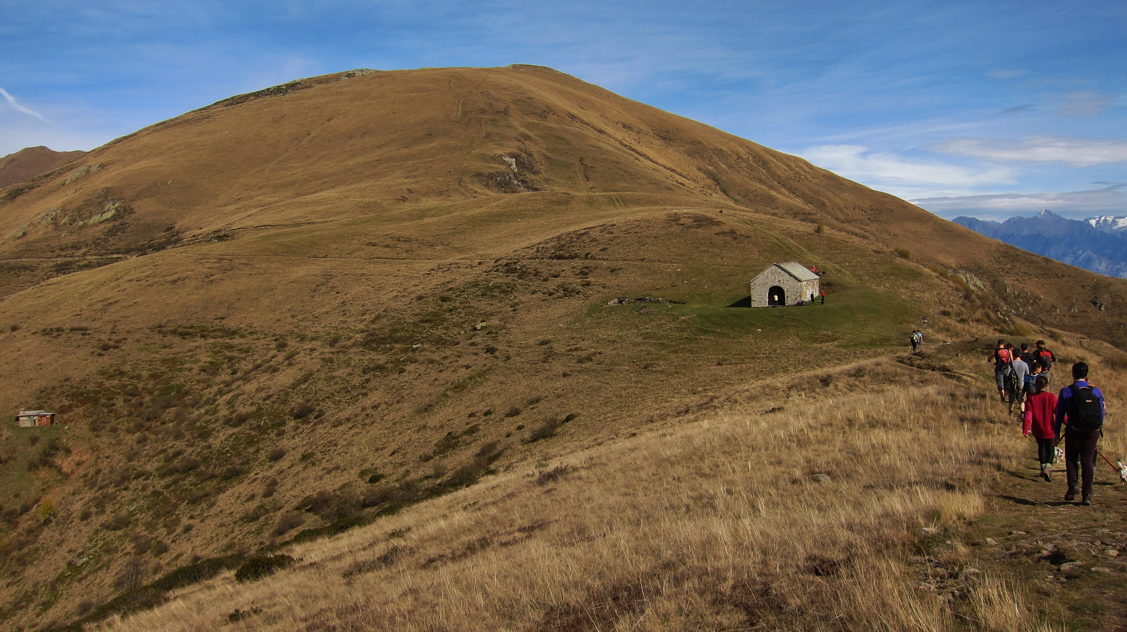 Pass sant'Amate (between Grona and Bregagnino), 1623 m.a.s.l. , sant'Amate chapel seen from Monte Grona. Picture taken in Plesio municipality (Como) on the 25th of October in 2015.